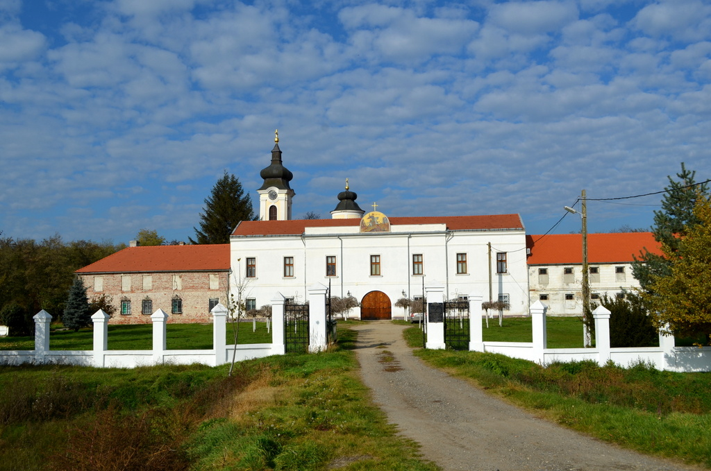 Sant George, Serbian monastery in Romania